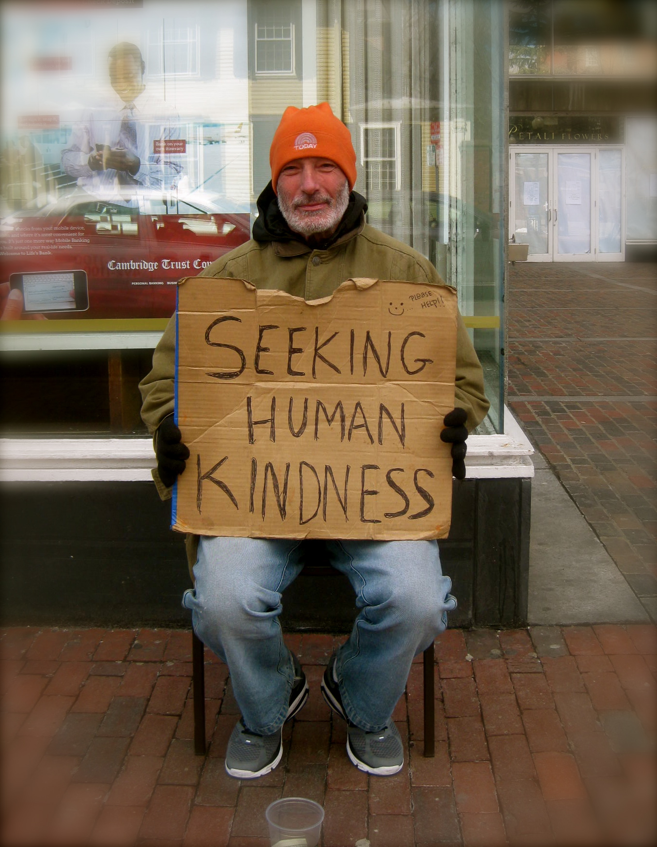 Boston 2013